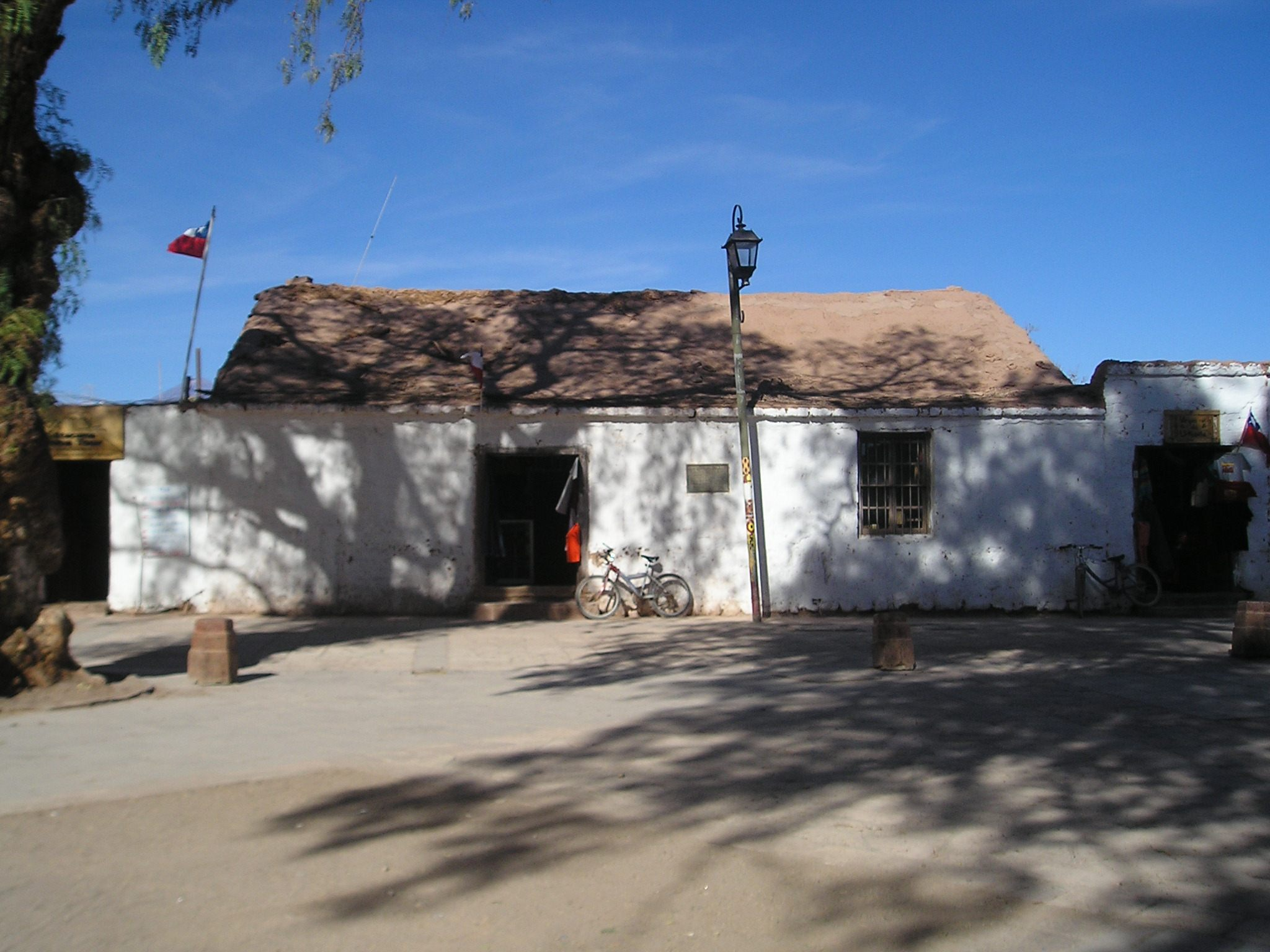 San Pedro de Atacama, Chile - Casa Incaica where Pedro de Valdivia slept one night, according to an urban legend.